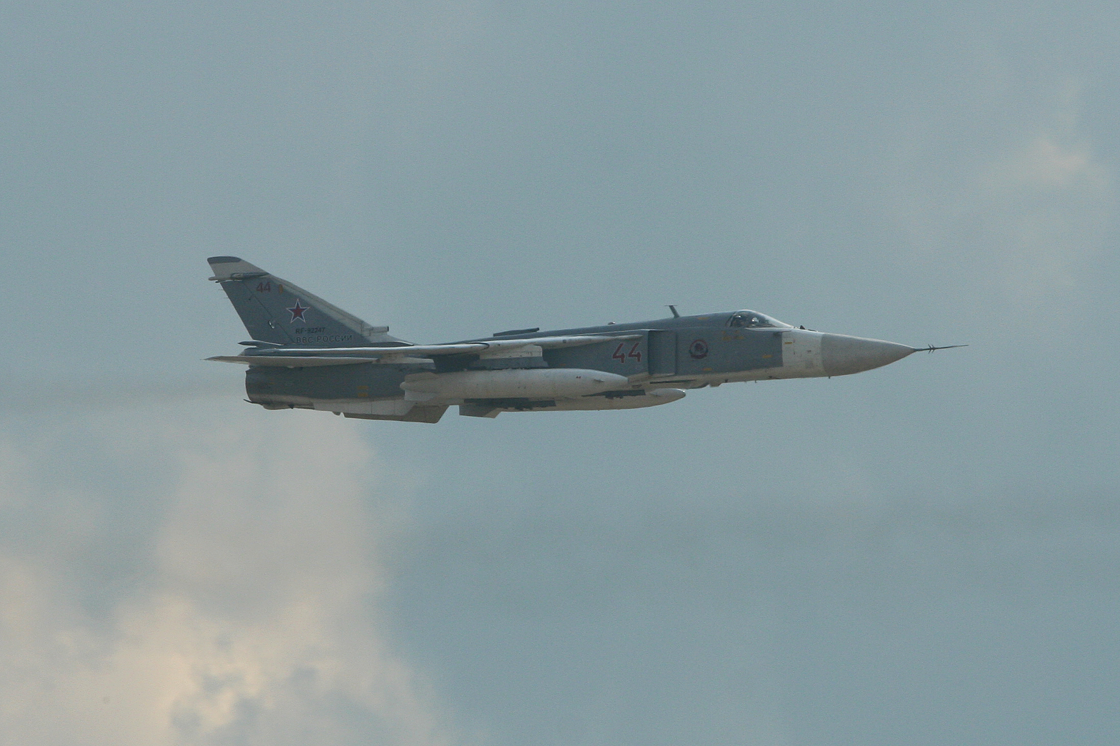 The second fast jet formation flyby was carried out by four Su-24M Fencers from 4.GTsPAV i VI based at Lipetsk. This was the third aircraft in the formation and is actually an Su-24M2, which is a recent upgrade to the Su-24M. c/n 1341620. Russian Air Force 100th Anniversary Airshow. Zhukovsky, Russia. 12-8-2012